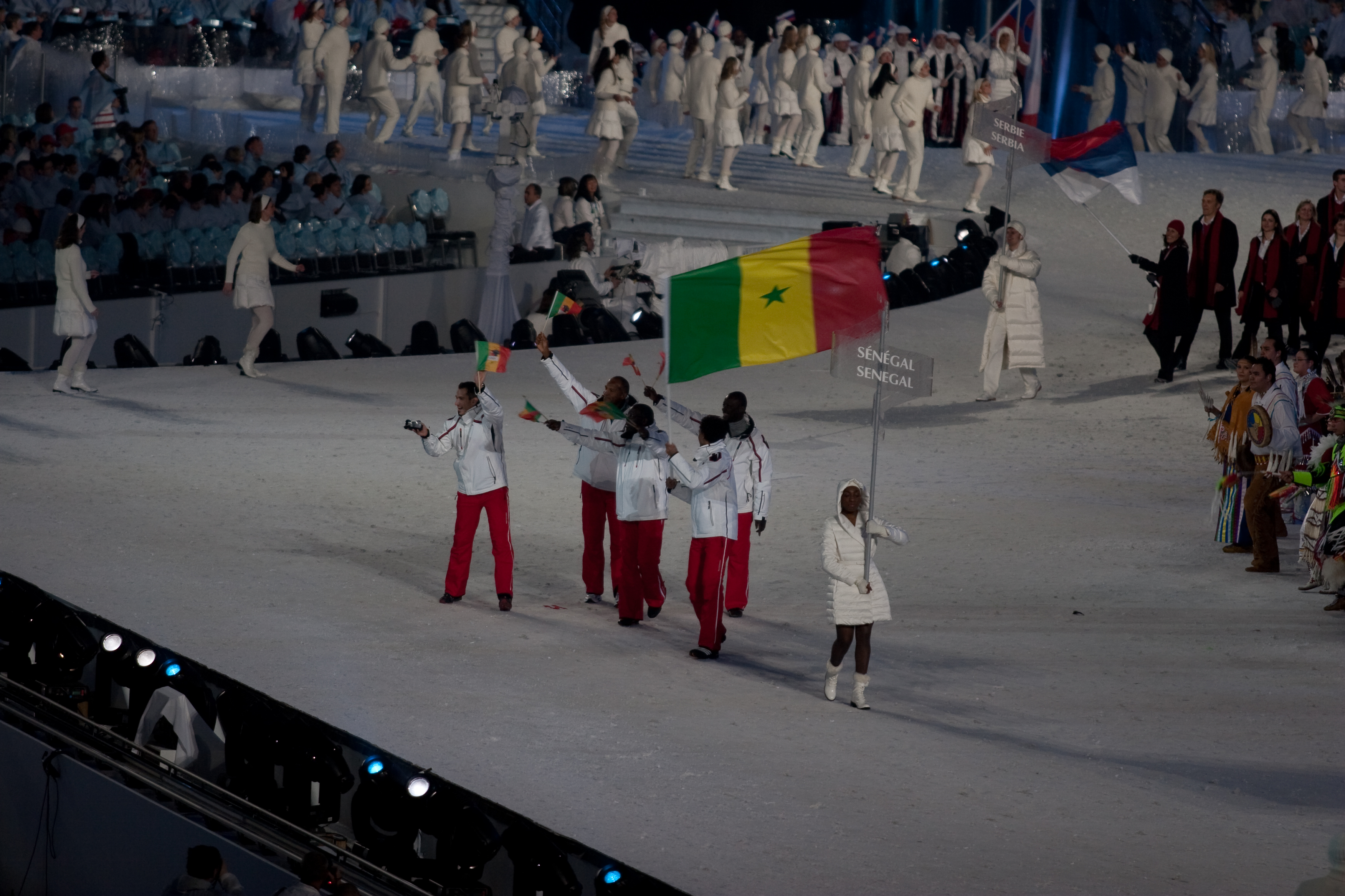 The athletes from Senegal entering the stadium at the opening ceremonies of the 2010 Winter Olympics.